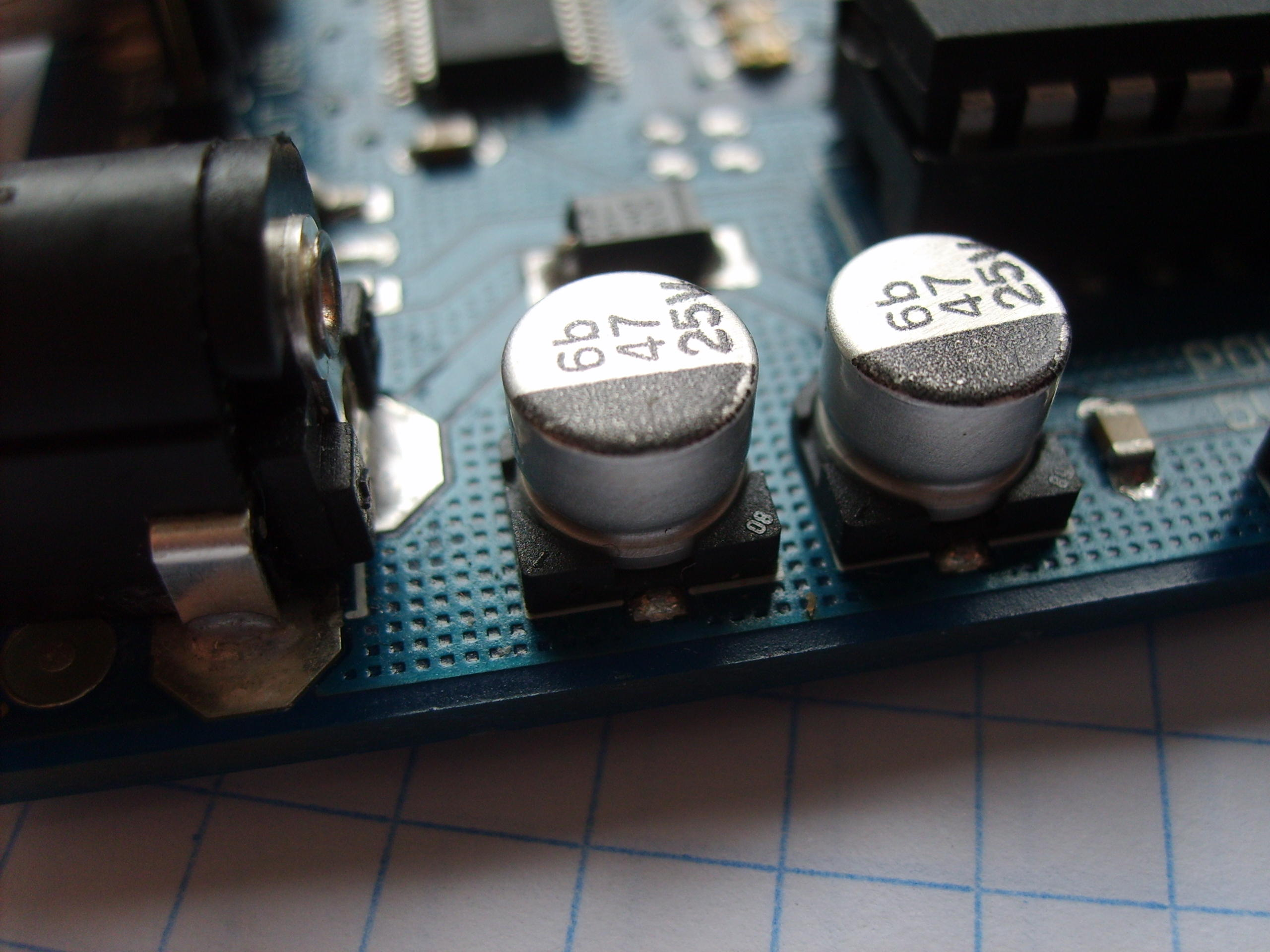 Two metal can polarized electrolyte SMD (surface-mount device) capacitors on the Arduino NG board from arduino.cc.